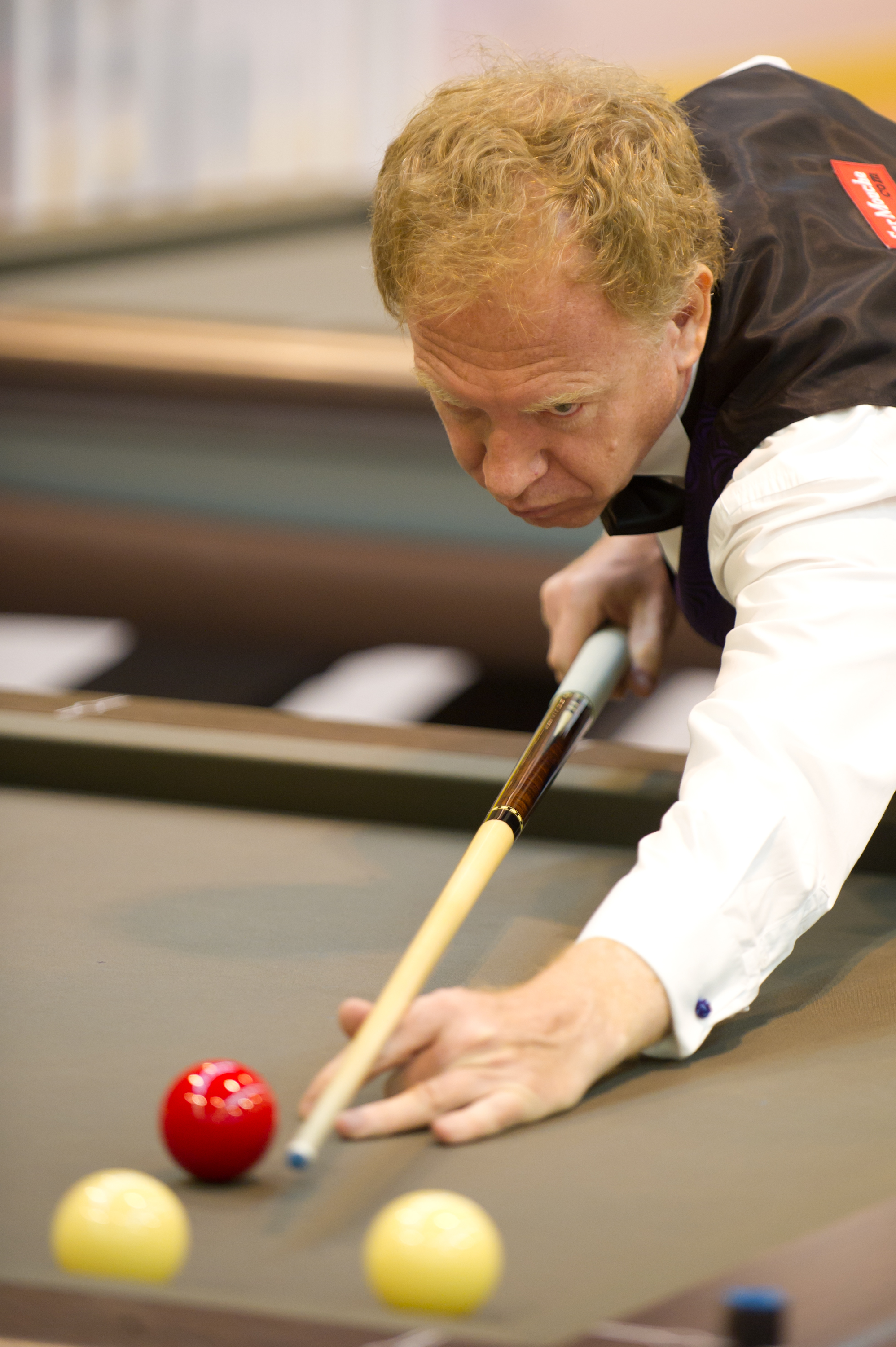 Laurent Guénet at 2010 Castre carom's French Championship. Titre de champion de France au cadre 71/2